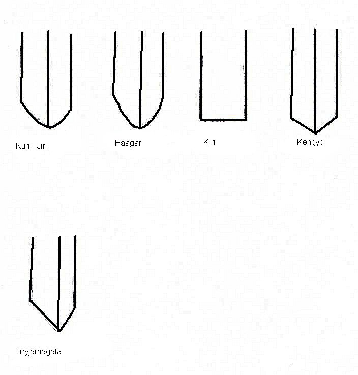 Styles of the japanese sword-tang (Nakago), Angle Tip-styles (Nakago-Jiri)